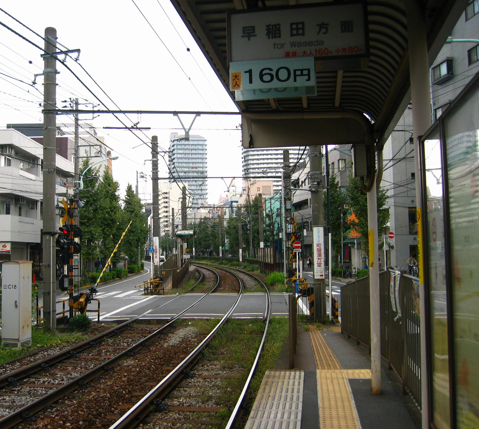 Toden Arakawa Line,Machiya Nichōme Station. (Tokyo, Japan)